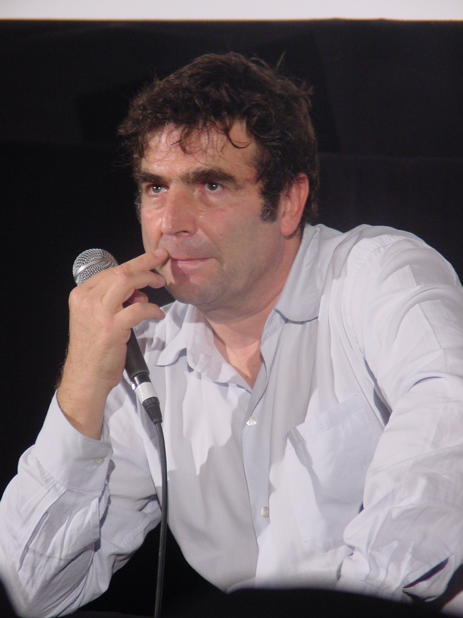 French film director Romain Goupil at the Tokyo International Film Festival 2010